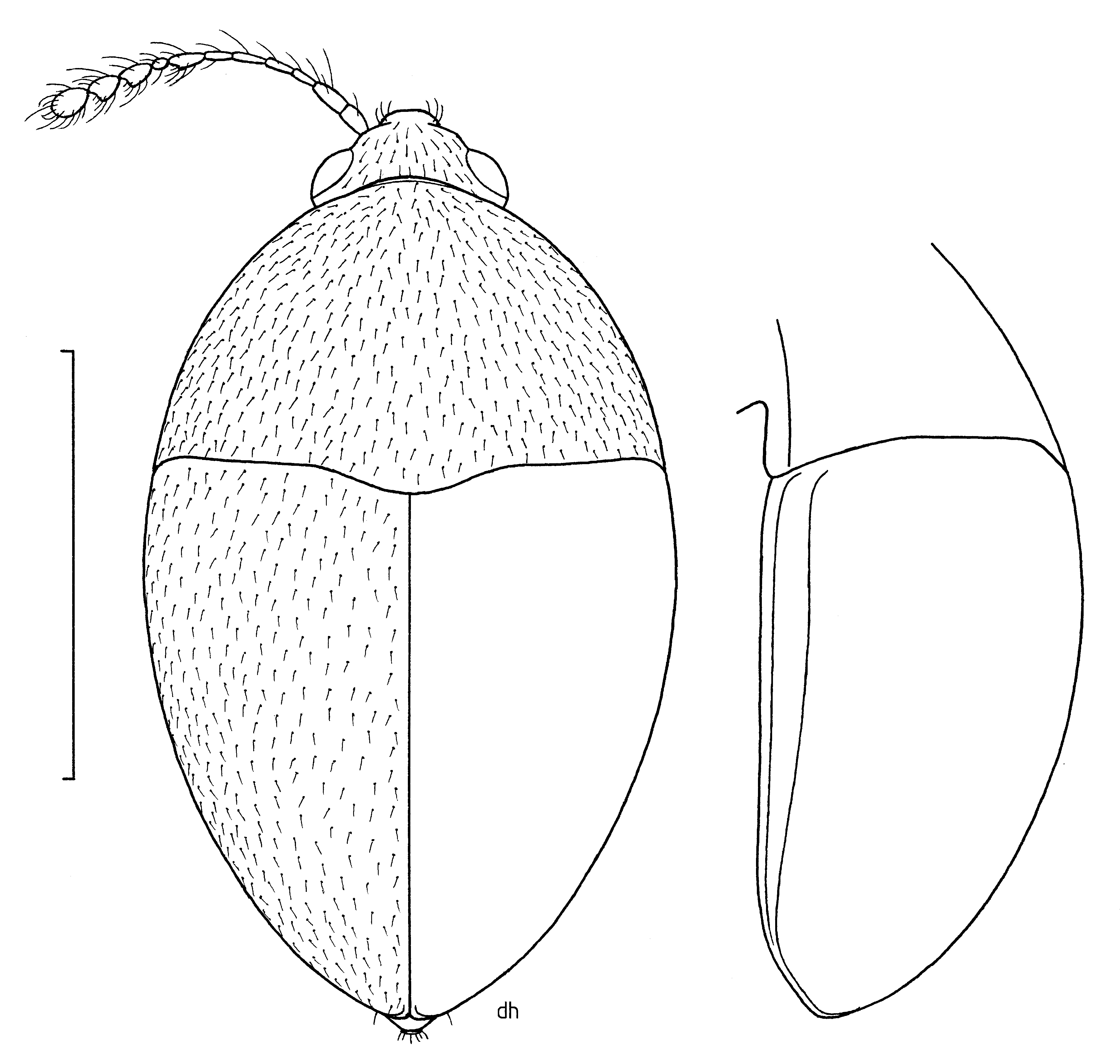 (Coleoptera: Staphylinidae) Bertiscapha illustrated by Des Helmore.